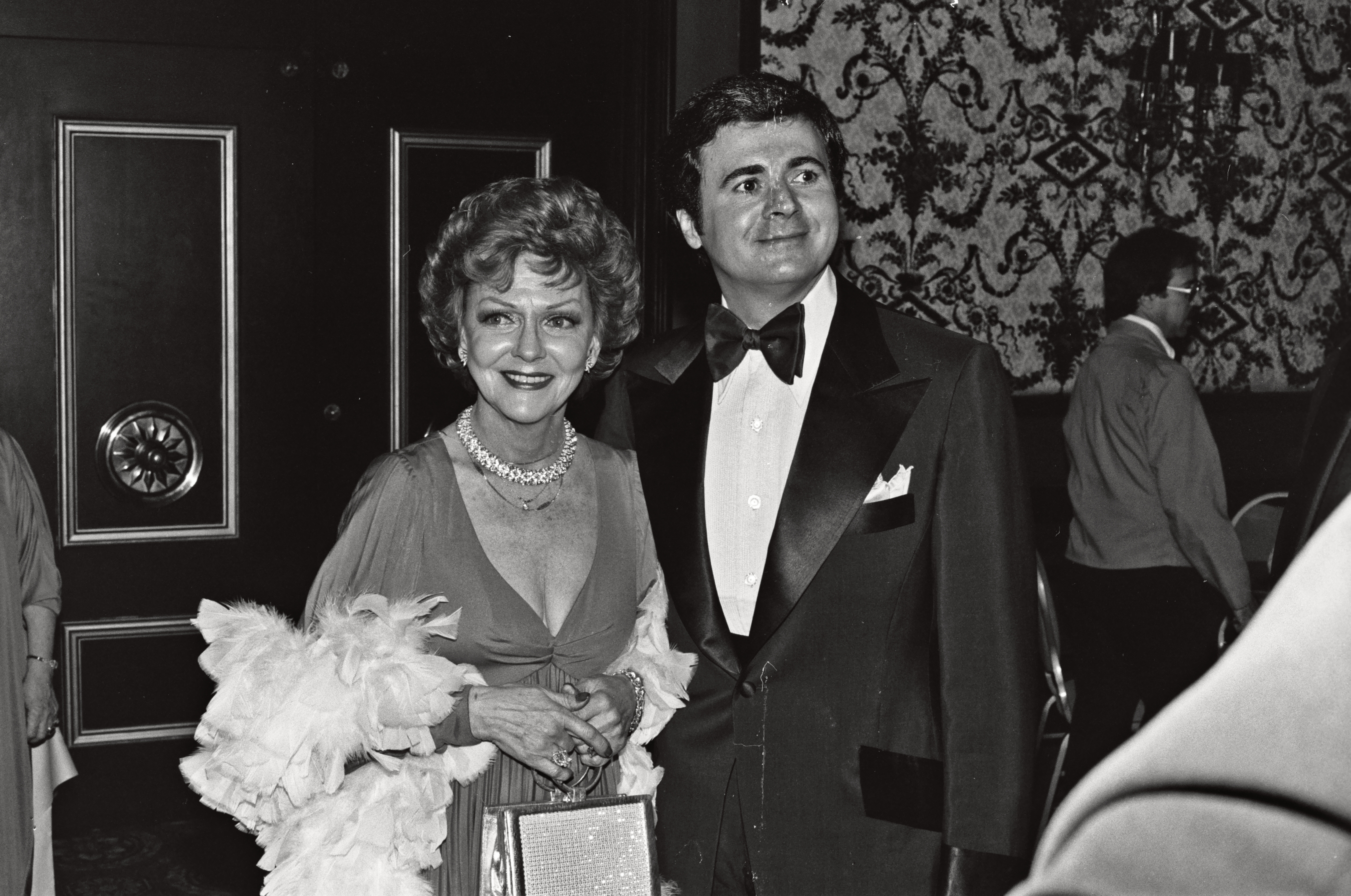 Vivian Blaine with ? at the National Film Society convention, May 1979. NOTE: Permission granted to copy, publish, broadcast or post any of my photos, but please credit "photo by Alan Light" if you can. Thanks.